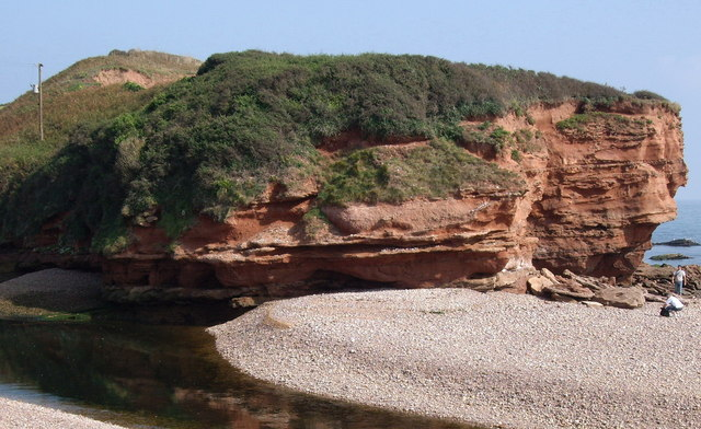 Erosion in the red sandstone.